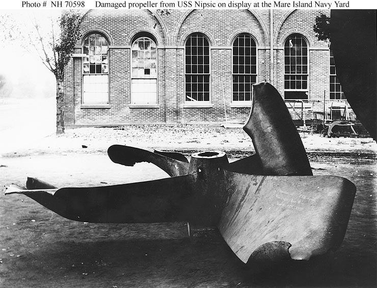 The propeller of USS Nipsic, damaged during the 1889 Apia cyclone and on display at Mare Island Naval Yard, California